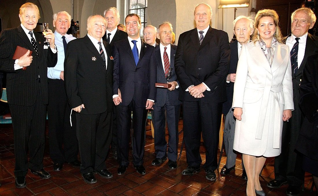 President of Russia Dmitry Medvedev's two-day state visit to Norway 26.-27. April 2010. With World War II veterans at Ceremony Awarding Russian Federation 65th Anniversary of Victory Jubilee Medals to World War II Veterans. Norwegian Armed Forces Museum, Oslo.